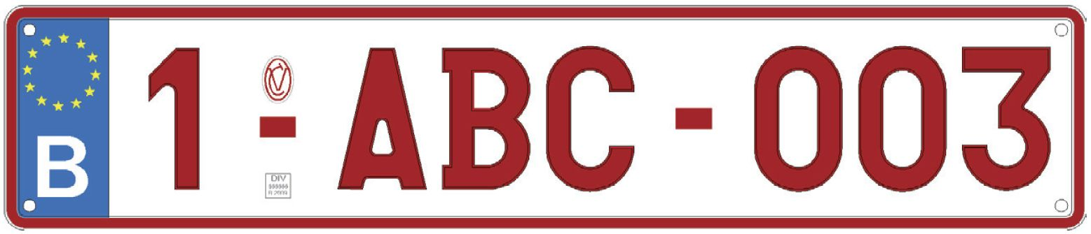 The new type of license plate as being used in Belgium from 2010-11-16 onwards.